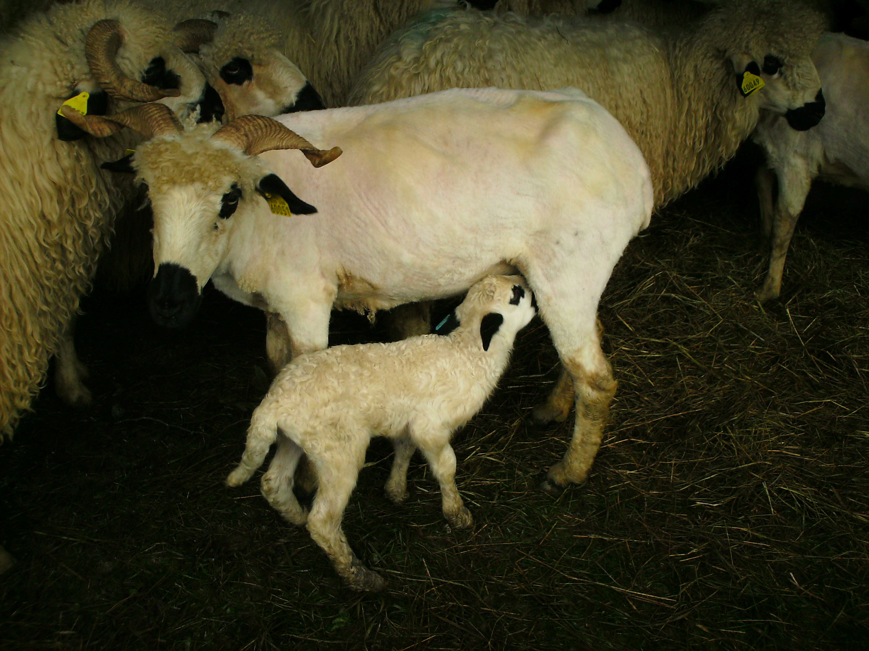 Nursing for a lamb after shearing, "Thônes et Marthod" french race.